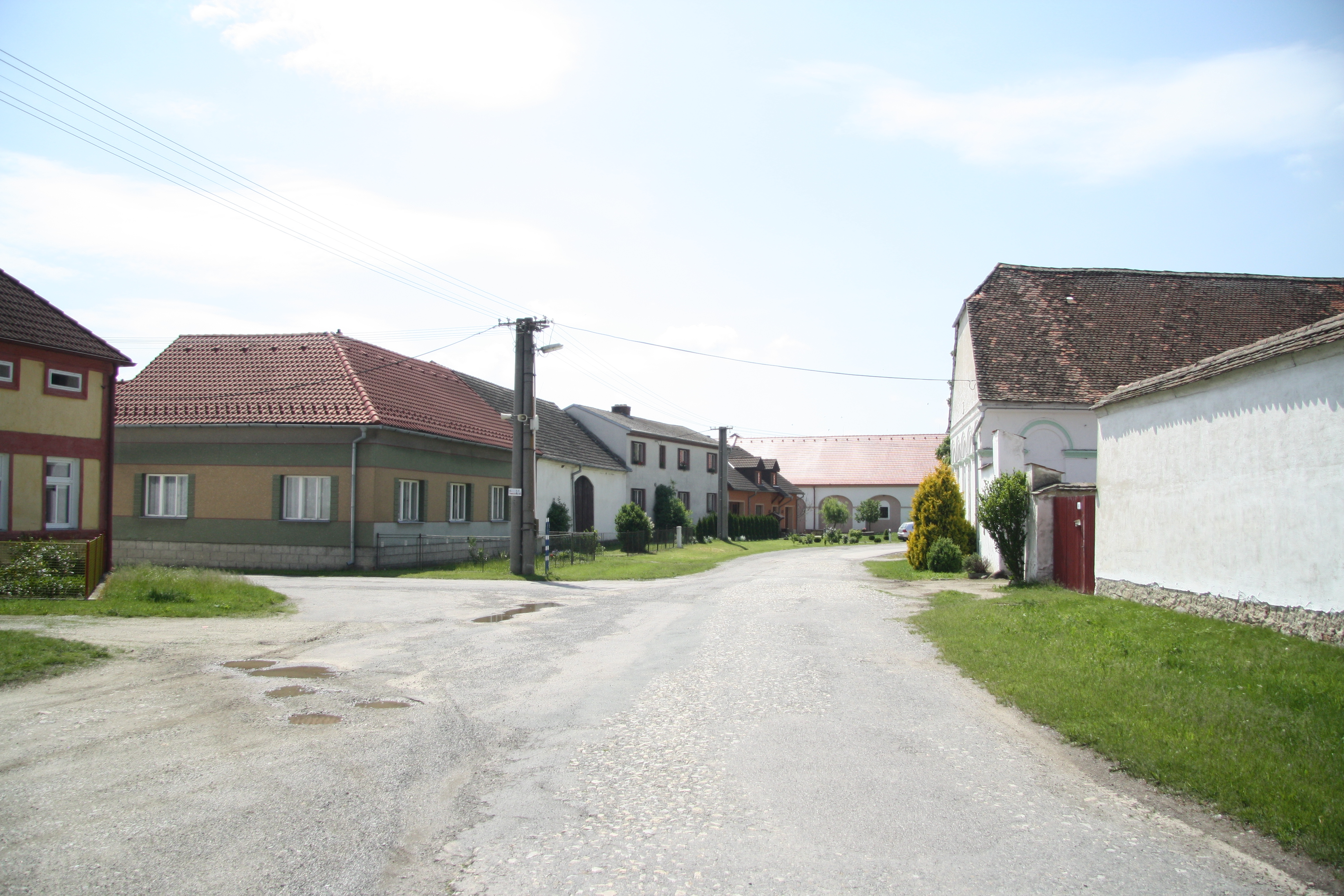 Road in Ratibořice, Jaroměřice nad Rokytnou, Třebíč District.